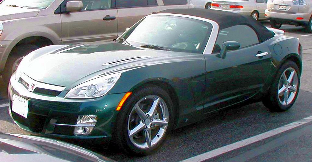 2006 Saturn Sky photographed in USA.